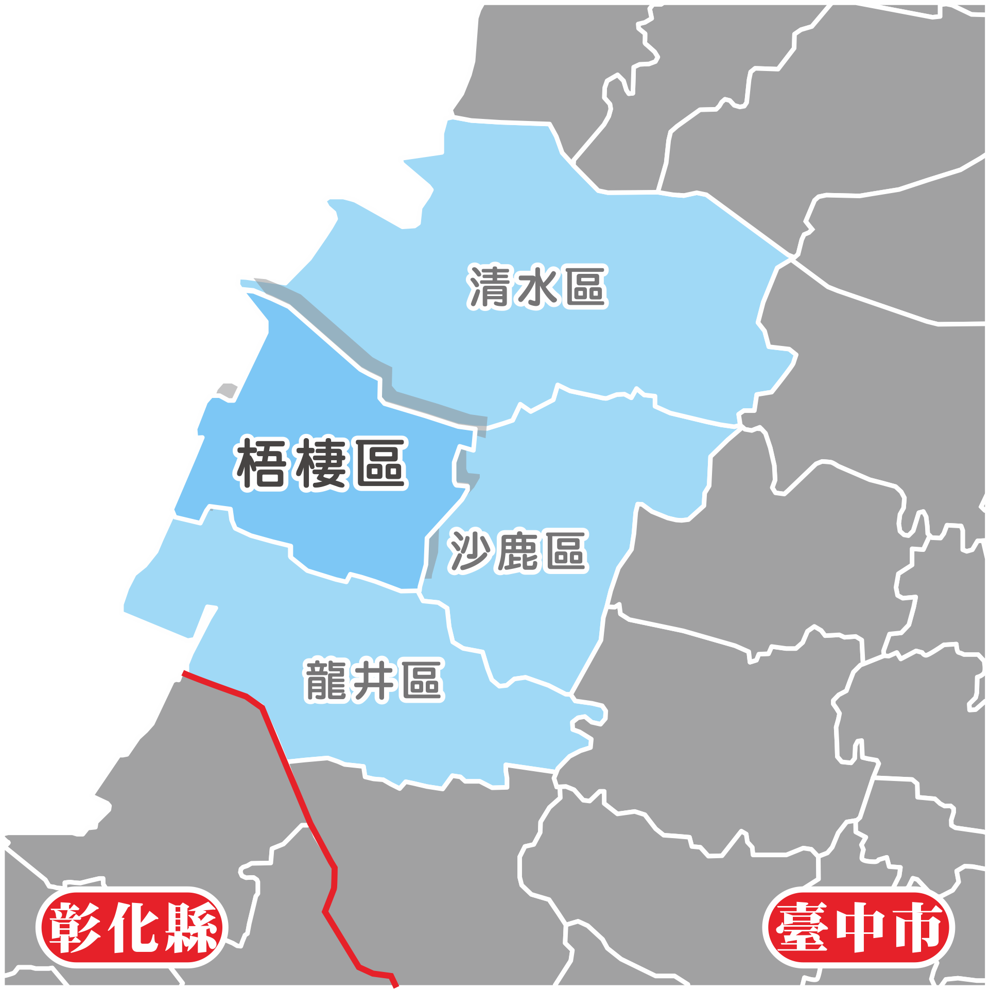 Wuqi District